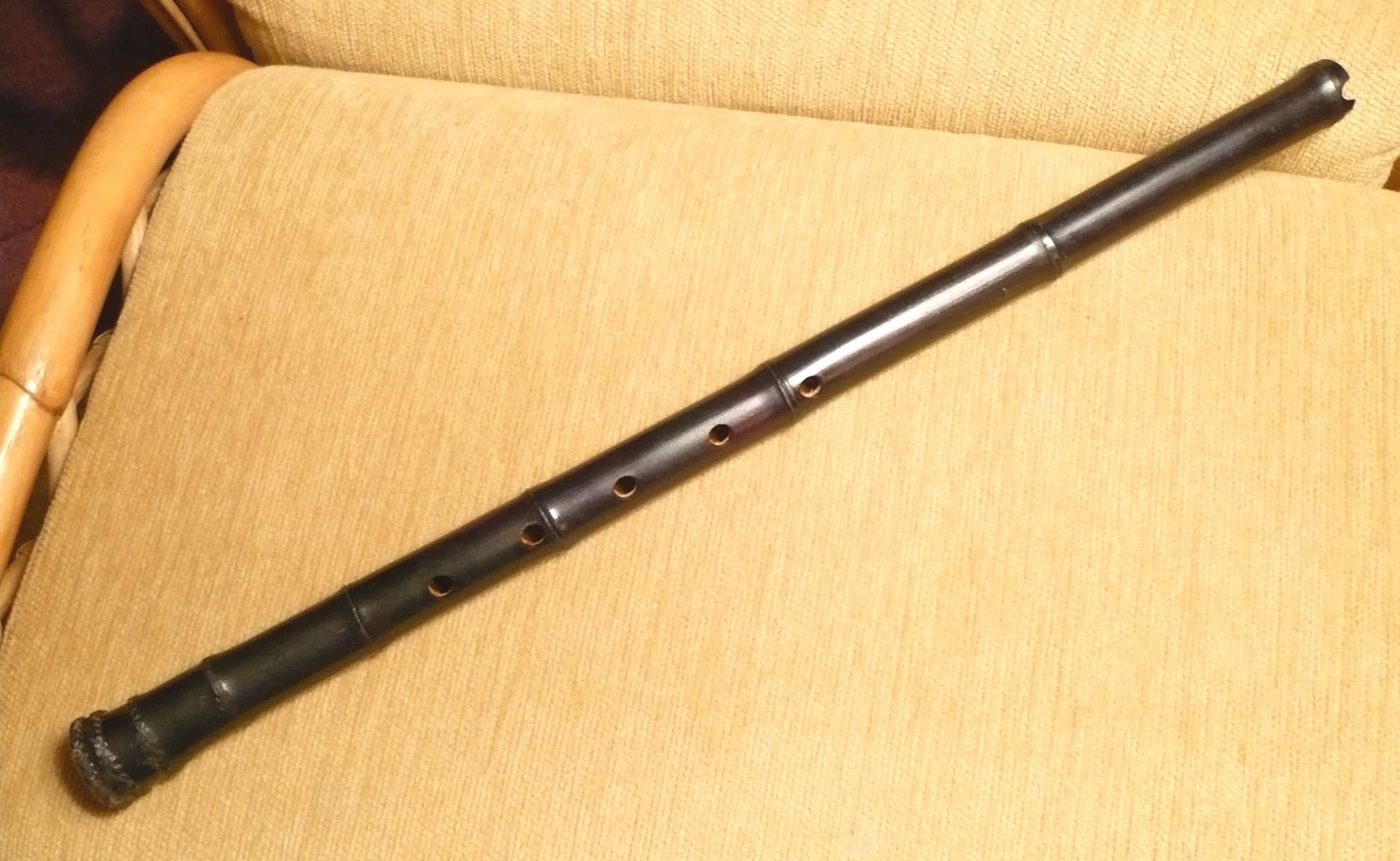 The front of a Taiwanese bamboo dongxiao, showing five finger holes and blowing hole and notch. There is one further finger hole on the back of the instrument, for the left thumb. The bottom of the instrument comes from the root end of the bamboo, as with most Japanese shakuhachis. The dongxiao is painted black.